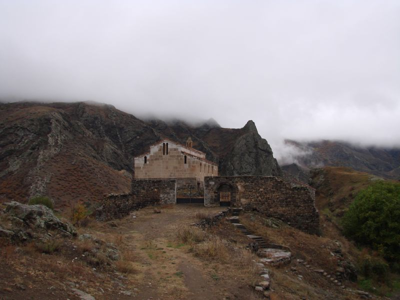 Tzitzernavank monastery in Nagorno-Karabakh (Lachin corridor)